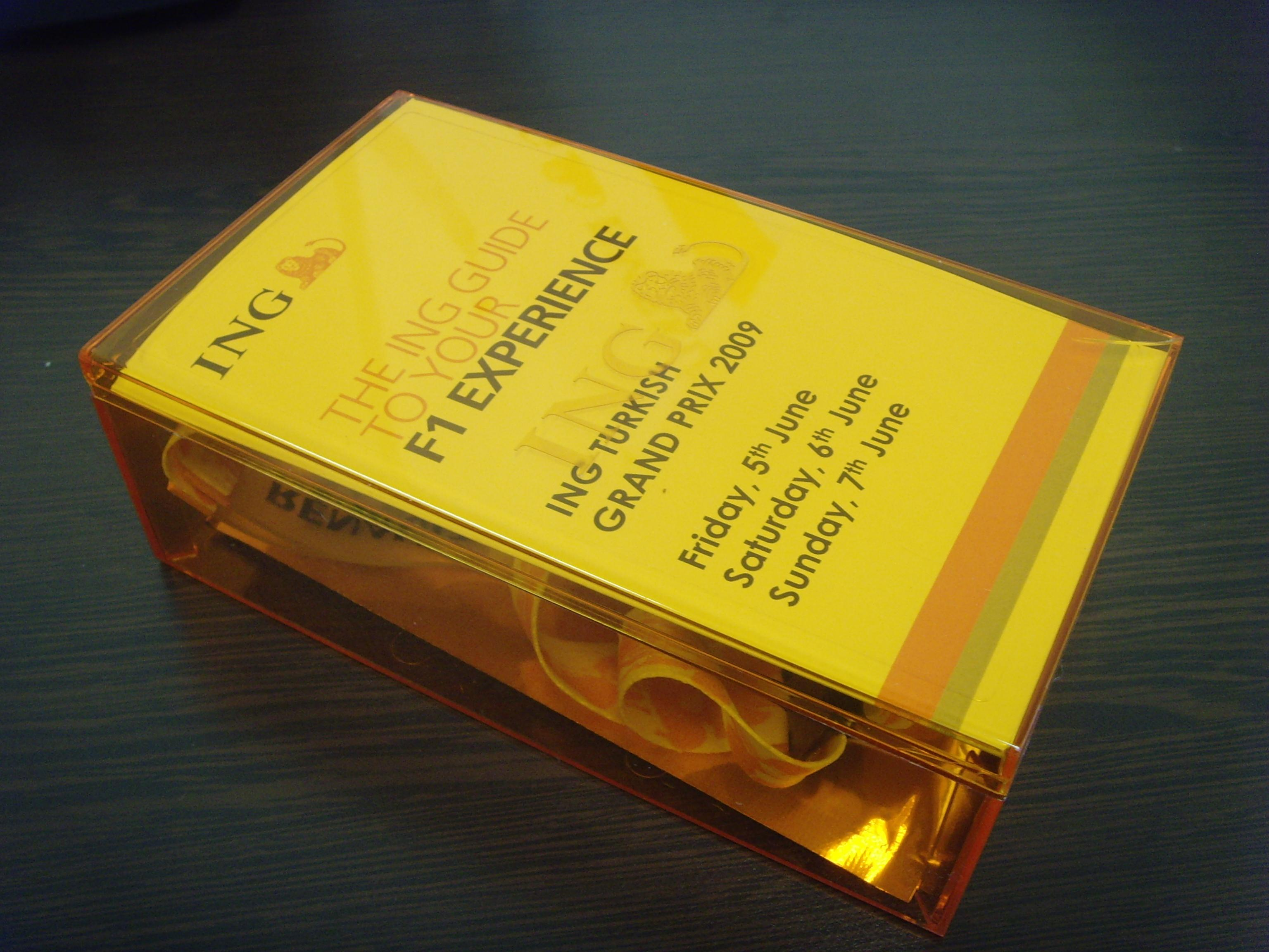 Ticket box for 2009 Turkish Grand Prix with the logo of ING Group, race sponsor.